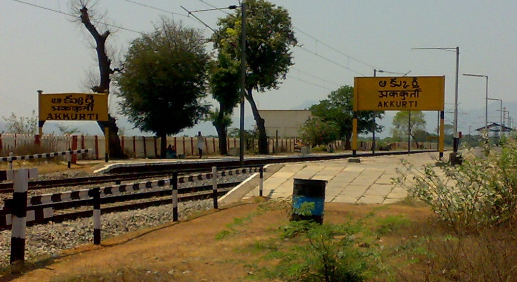 The photo of a railway station nearest to Muchivolu Village, Srikalahasti Mandal, Chittoor district, Andhra Pradesh, India